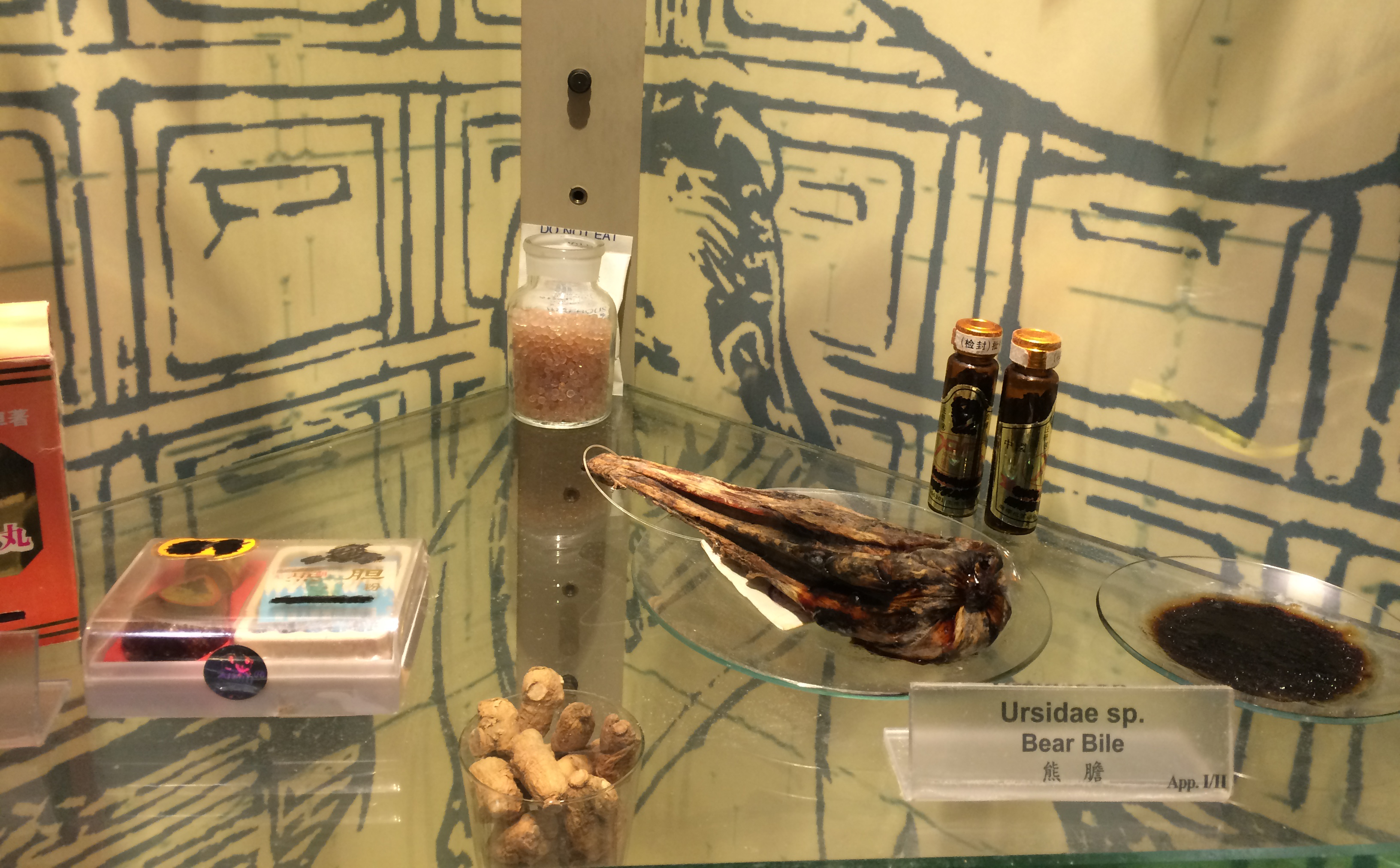 This image is related to a U.S. GAO report: Combating Wildlife Trafficking: Agencies Are Taking Action to Reduce Demand but Could Improve Collaboration in Southeast Asia